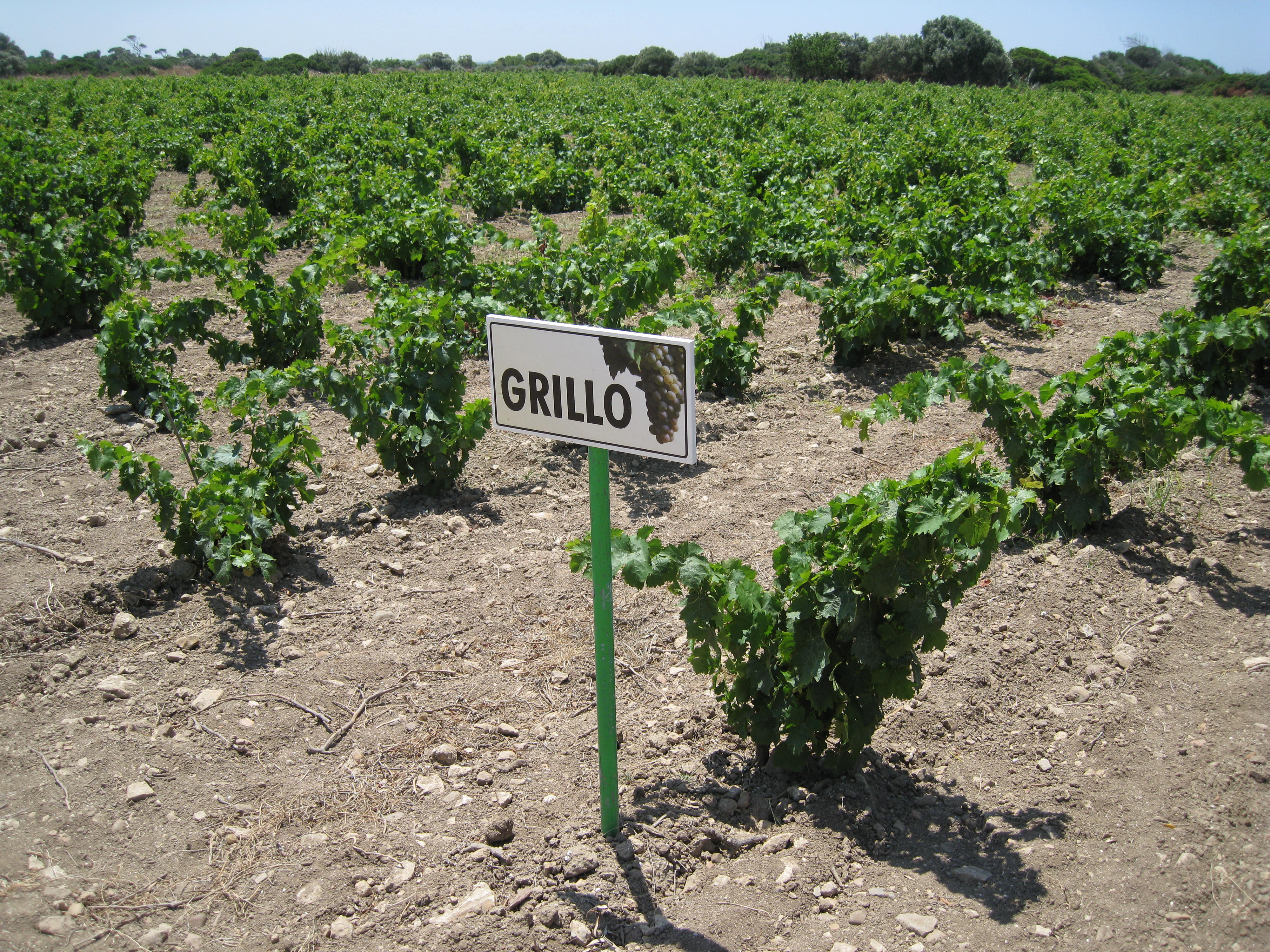 A field of grillo grapes on the island of Mozia, Italy.